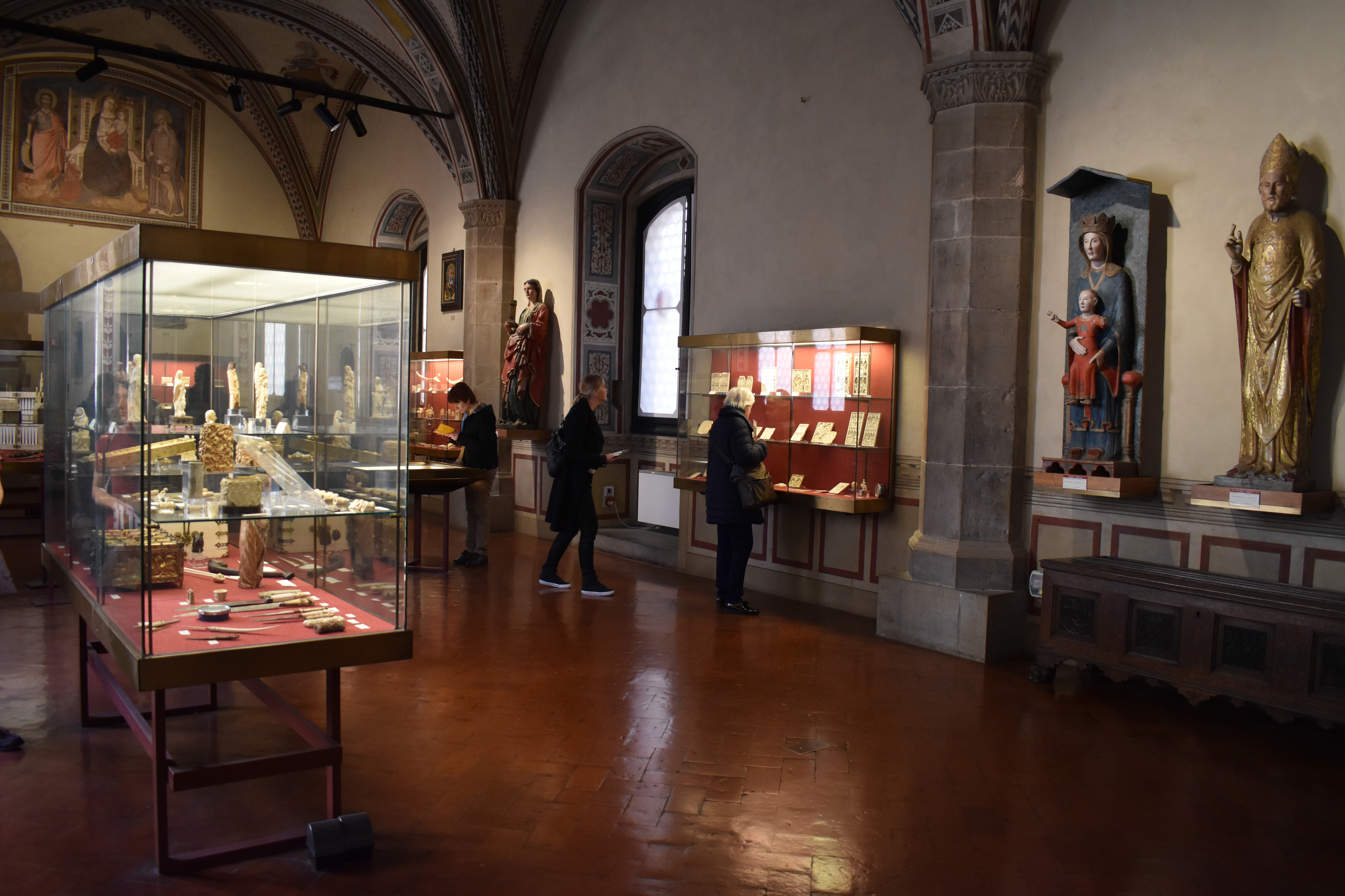 Room of the Ivories, Museo del Bargello, Florence